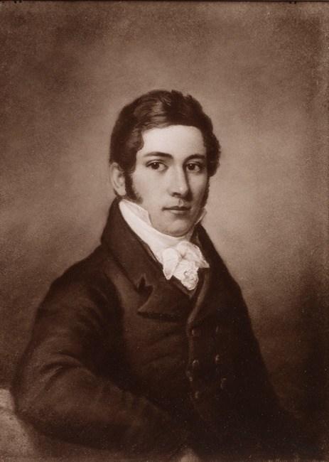 Portrait of Jacobus Meertens, born 1785 in Demerary (Guyana), died 1835 at Vauxhall Estate (Guyana)